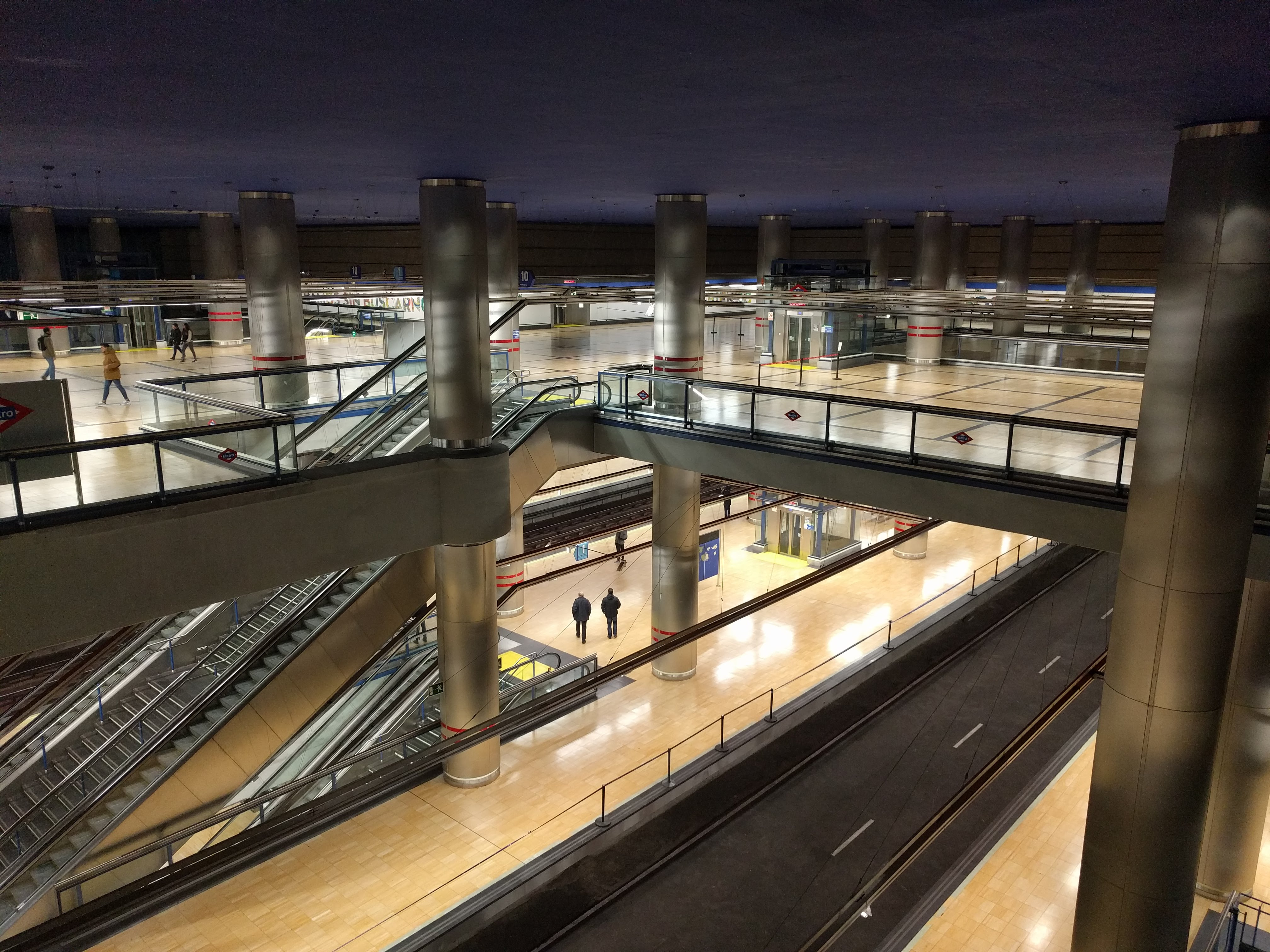 Upper two levels of the metro station. The top level contains fare gates, while the lower level has the tracks for Line 10 and the trench for a future, unbuilt metro line.